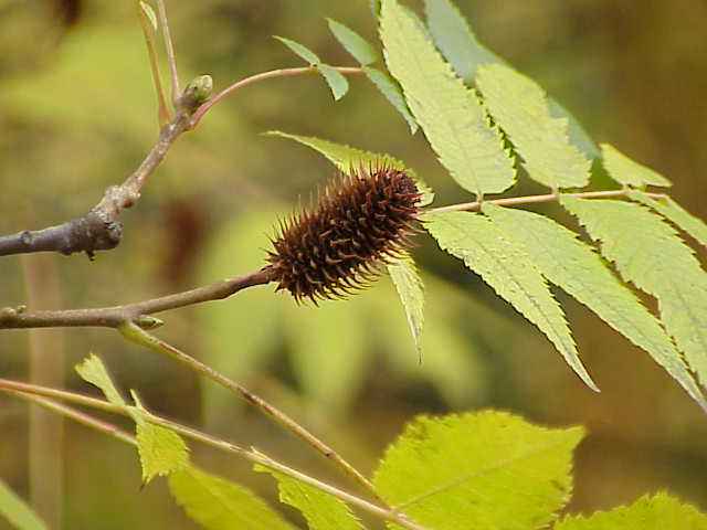 Species: Platycarya strobilacea Family: Juglandaceae Image No. 2